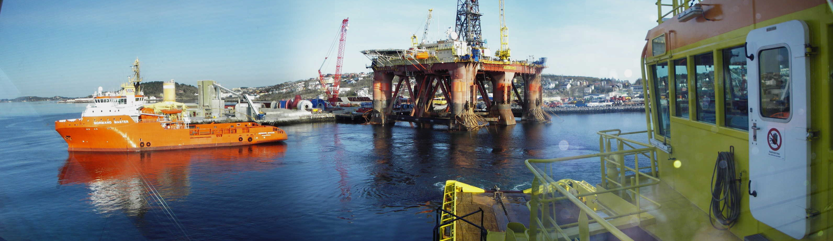 AHTS vessels Balder Viking and Normand master is towing the norwegian drill rigg Ocean Vanguard from the Yard in Norway 2005.